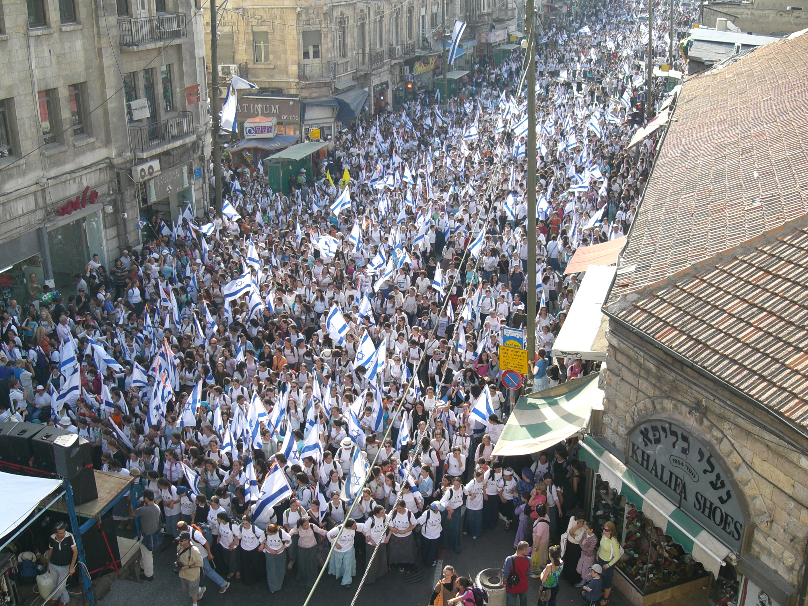 Jerusalem Day parade (Flags dance) - Jaffa Road, 44 (Khalifa Shoes), at the corner with Ha-Rav Kook street